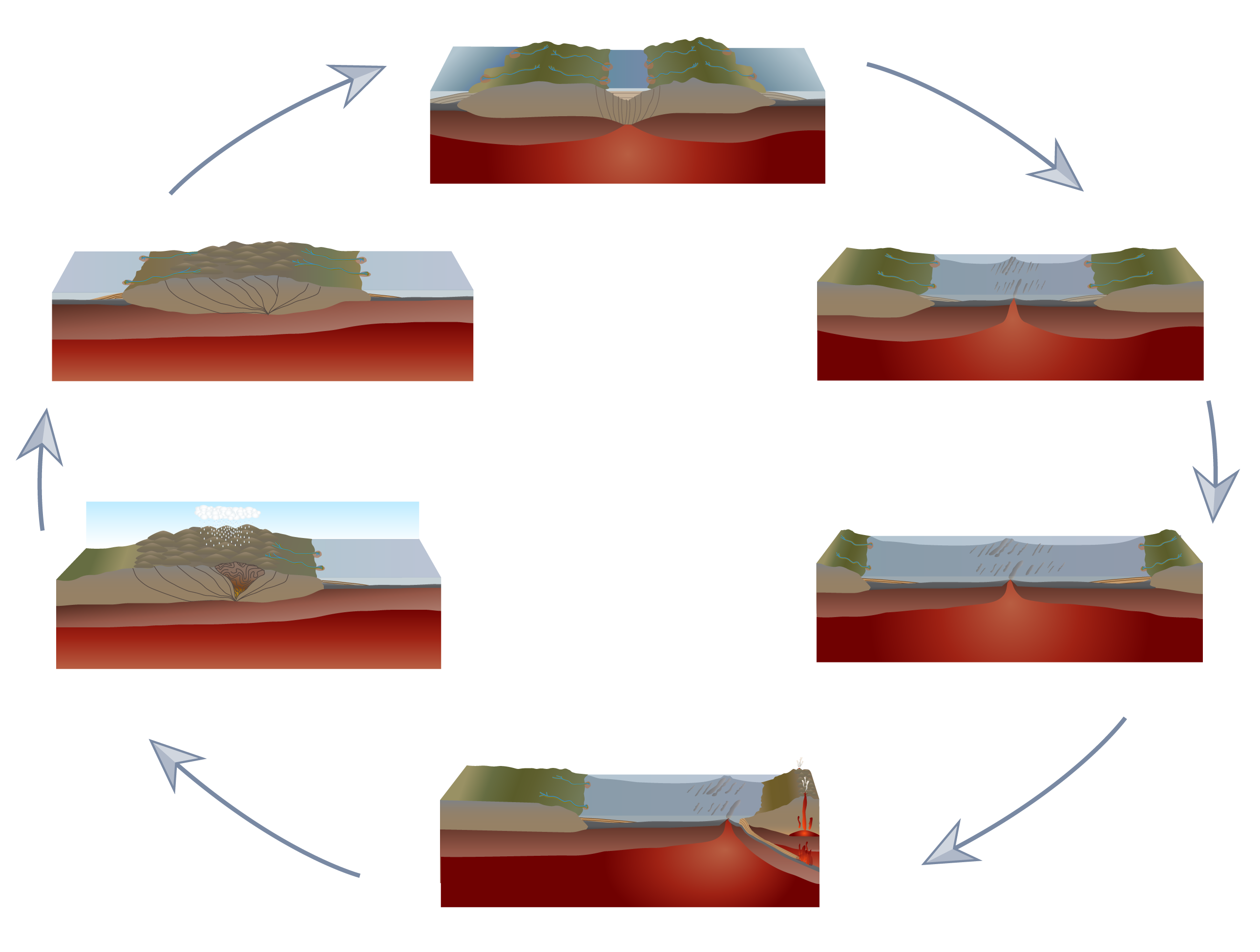 Rock cycle in Wilson Cycle